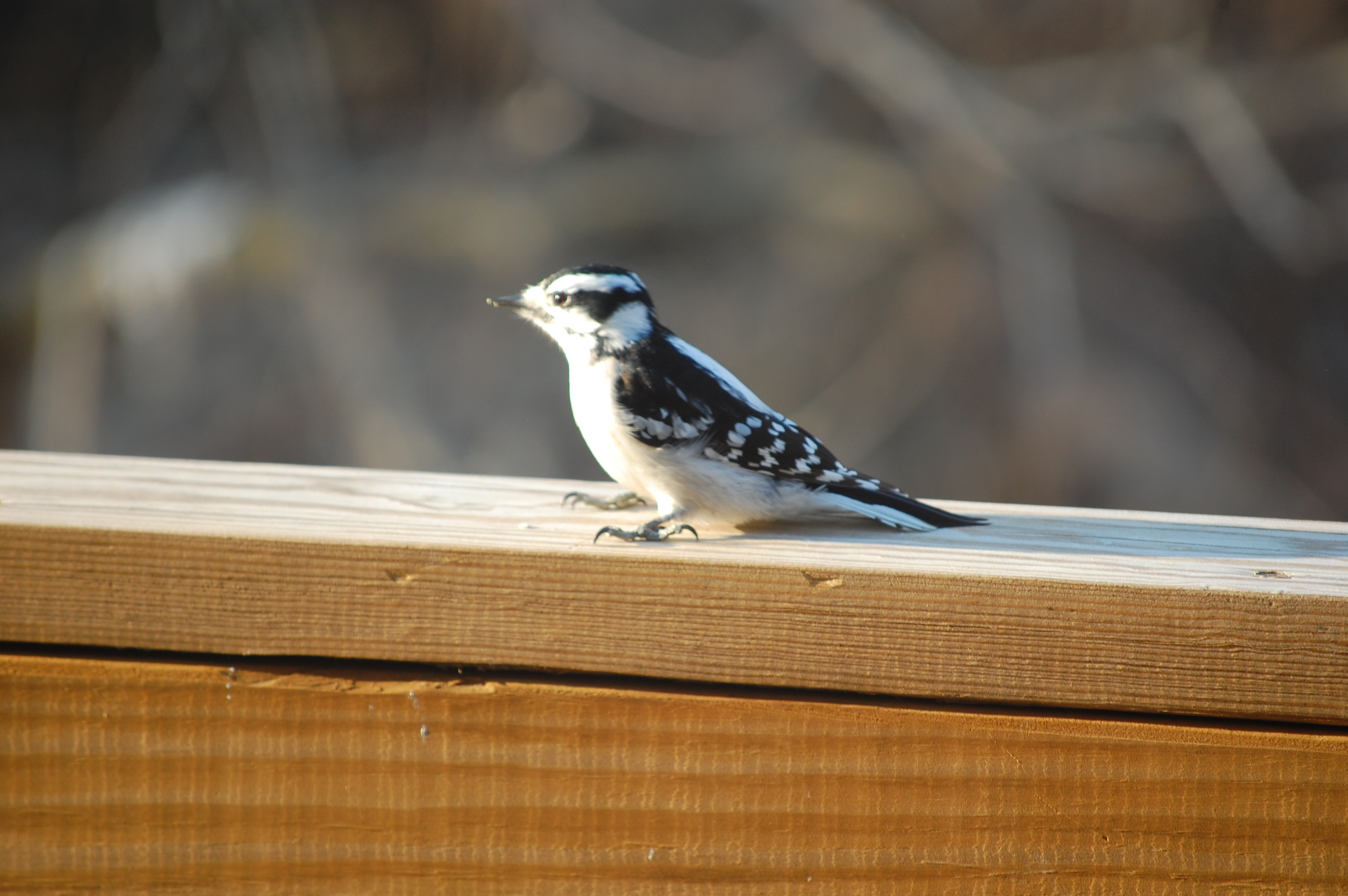 Female Downy Woodpecker (Picoides pubescens)